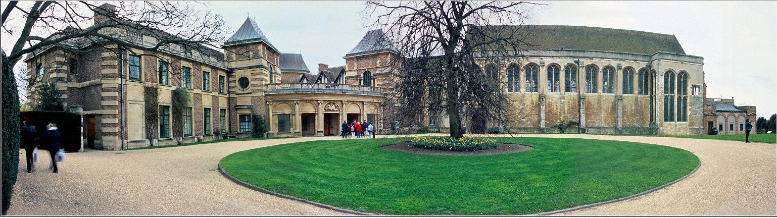 Eltham Palace